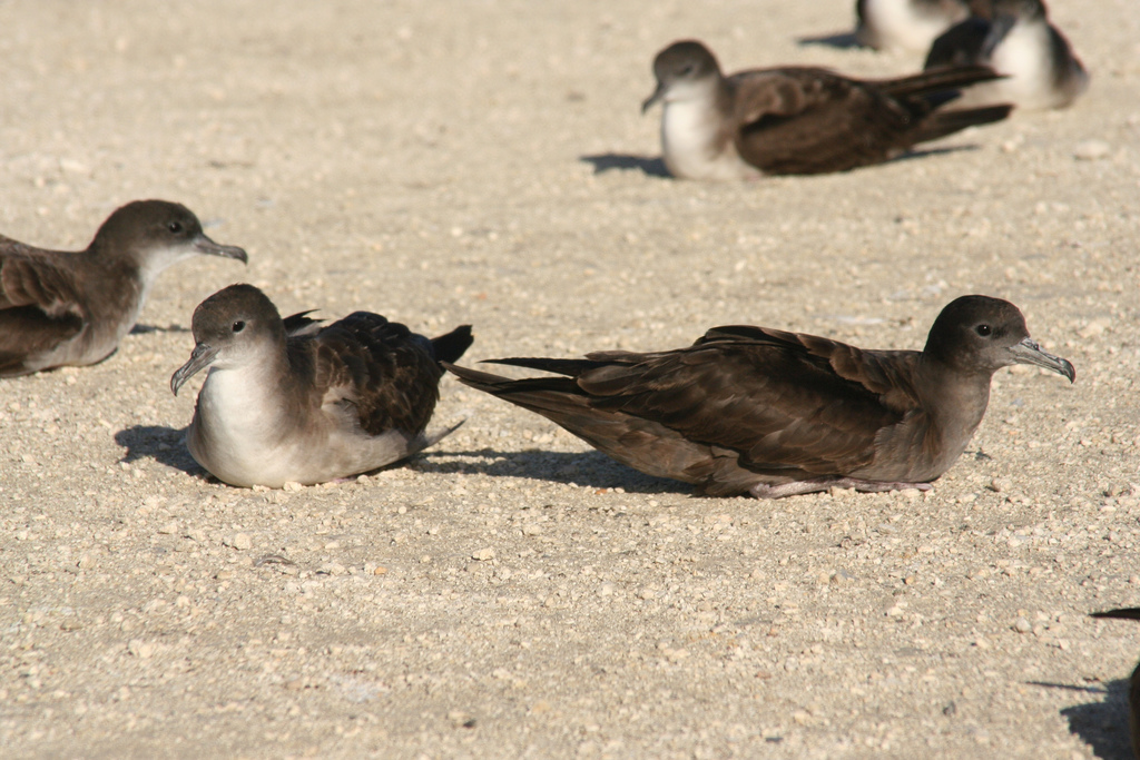 Wedge-tailed Shearwater Puffinus pacificus colour morphs, pale on left, dark on right. Tern Island, Northwest Hawaiian Islands